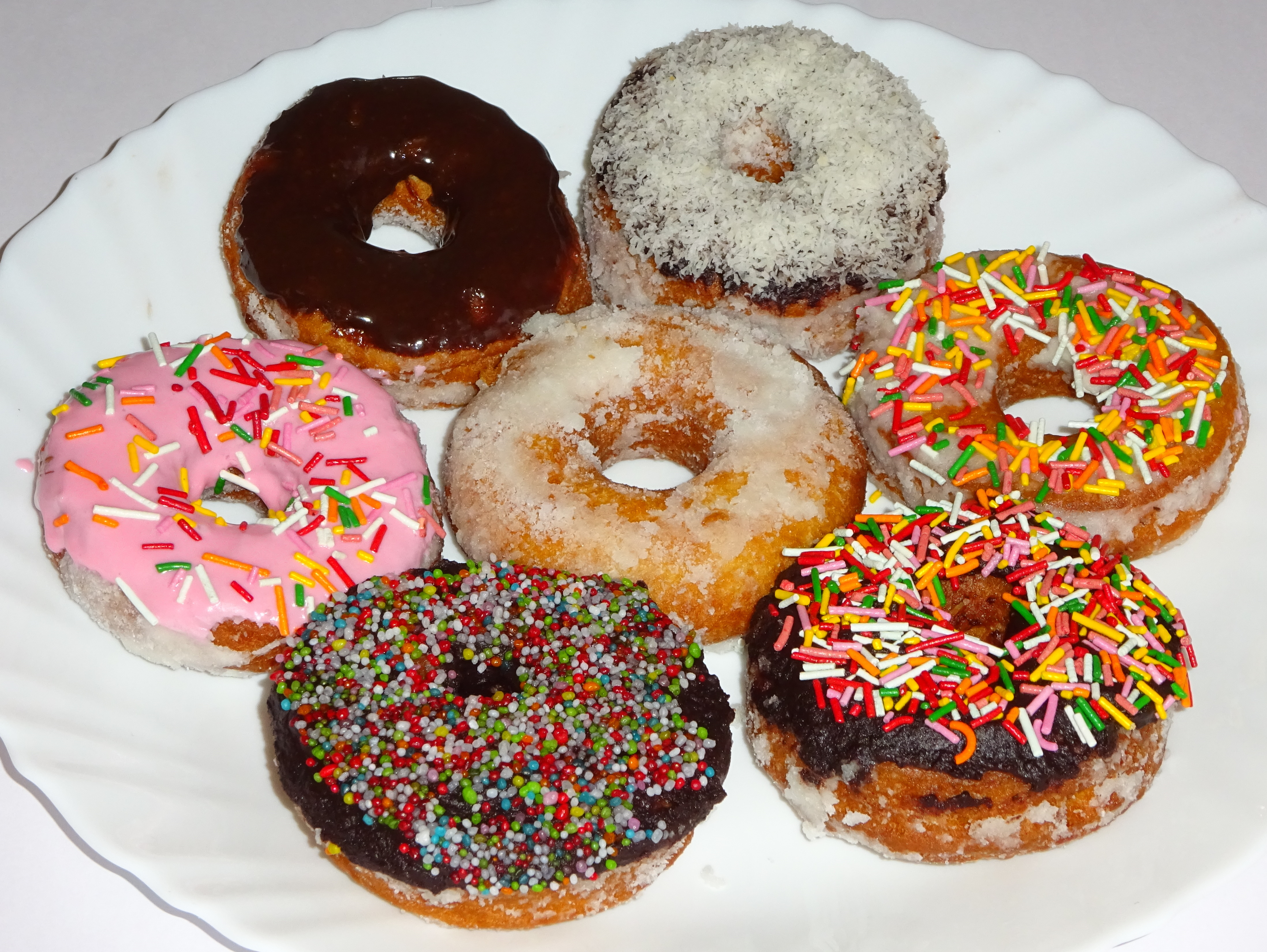 Home Made Doughnuts